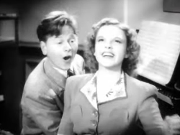 Cropped screenshot of Mickey Rooney and Judy Garland from the trailer for the film Babes in Arms